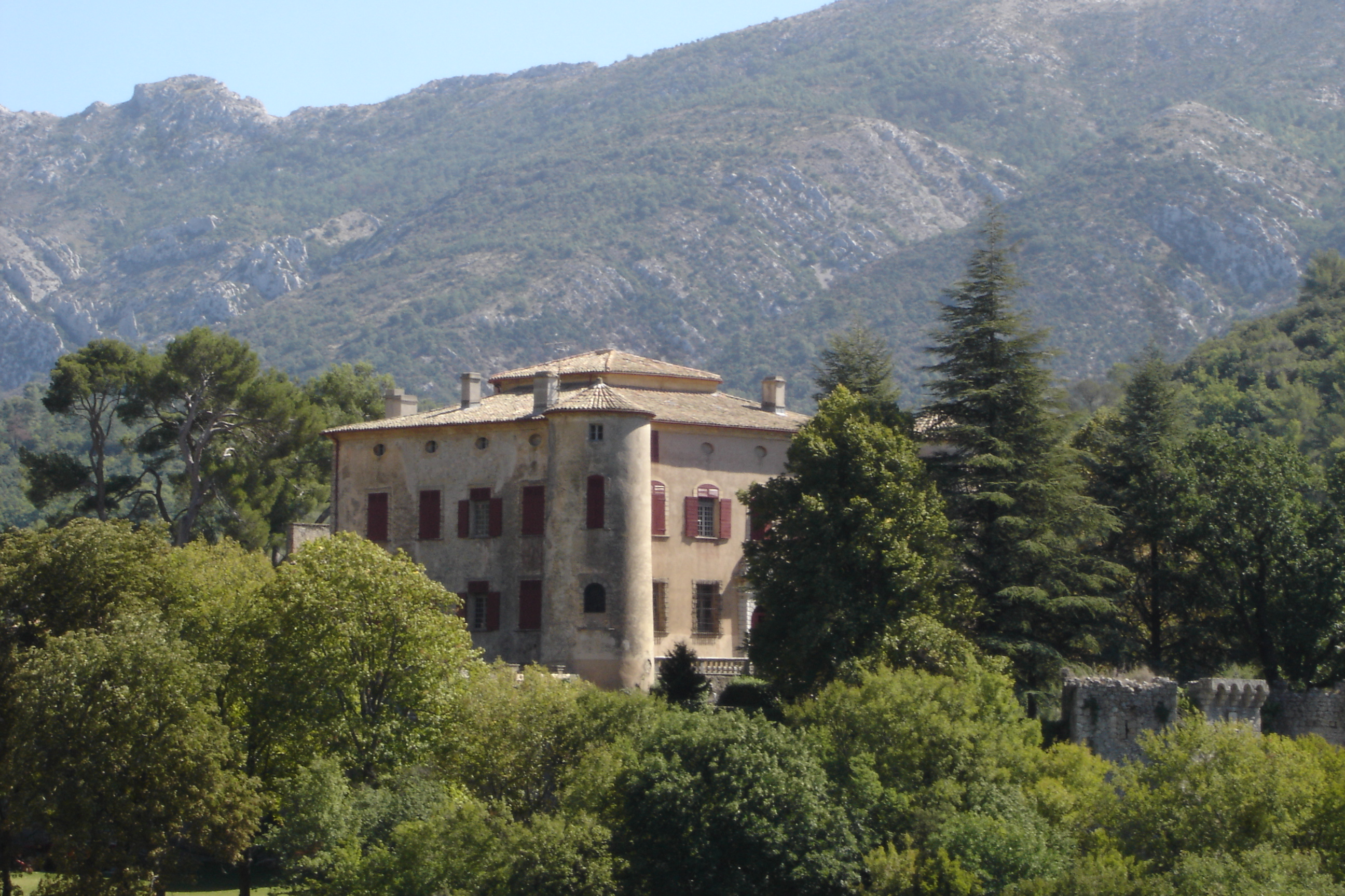 The chateau of Vauvenargues with Mont Sainte-Victoire in the background